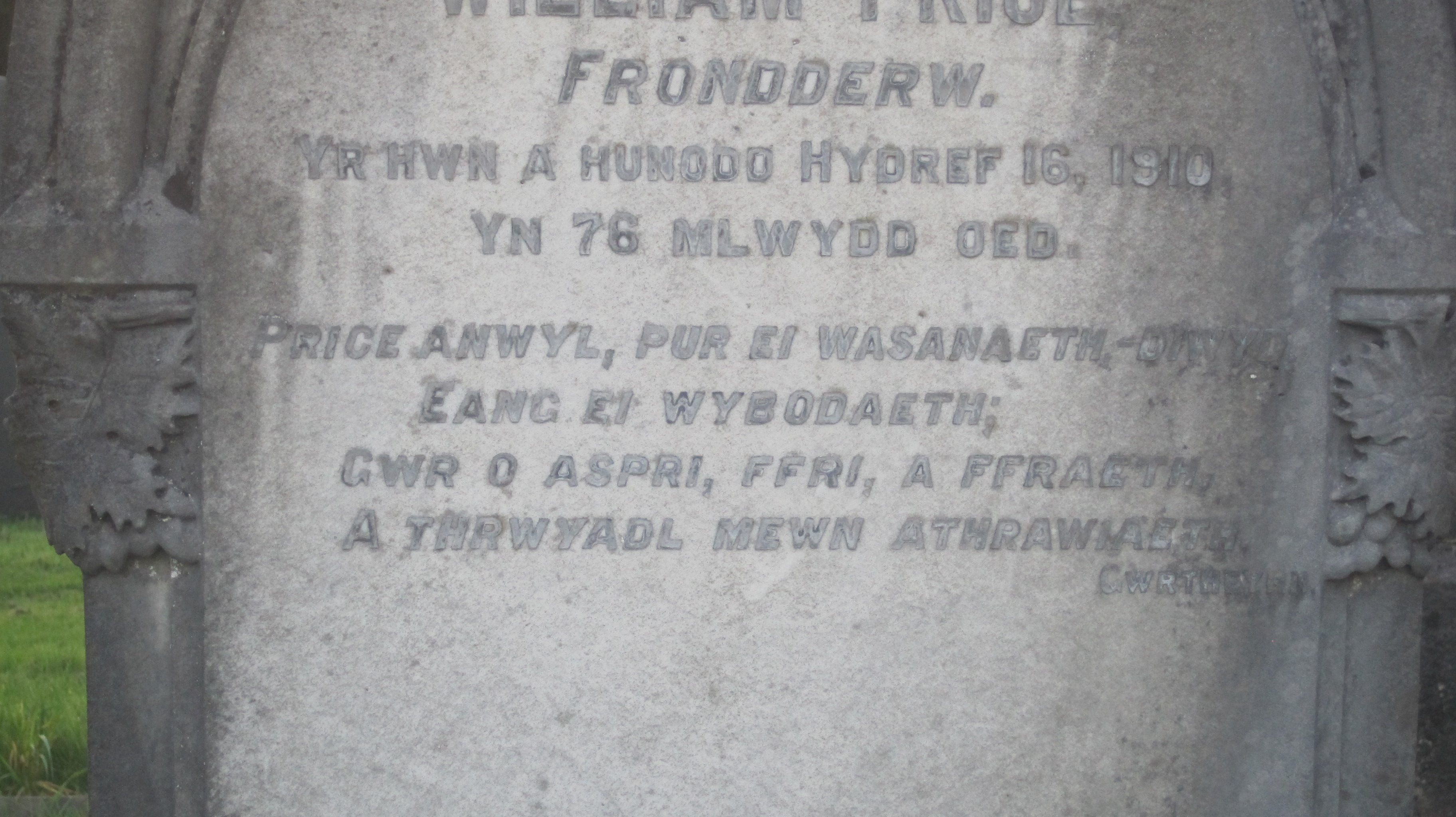 Christ Church, Bala, Gwynedd North Wales